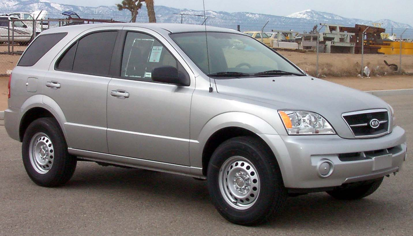 2003 Kia Sorento photographed in USA.